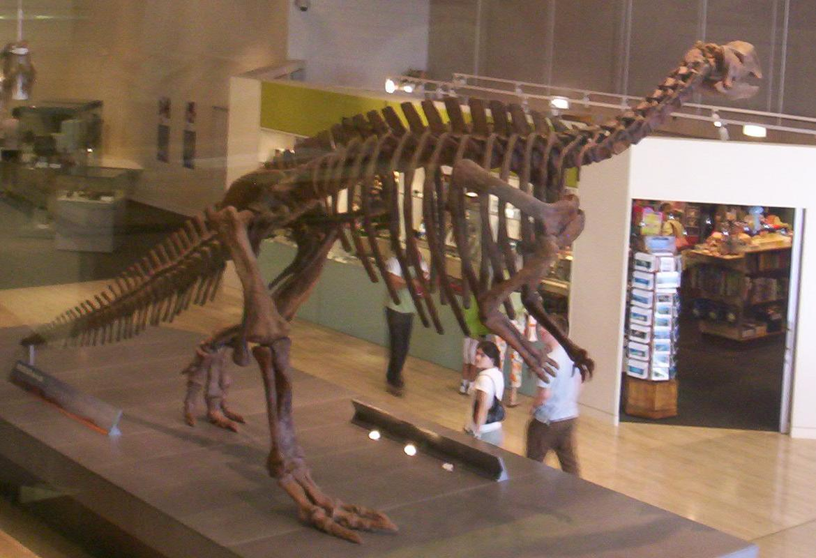 Muttaburrasaurus skeleton, as viewed from the Information Section at the Queensland Museum, Brisbane